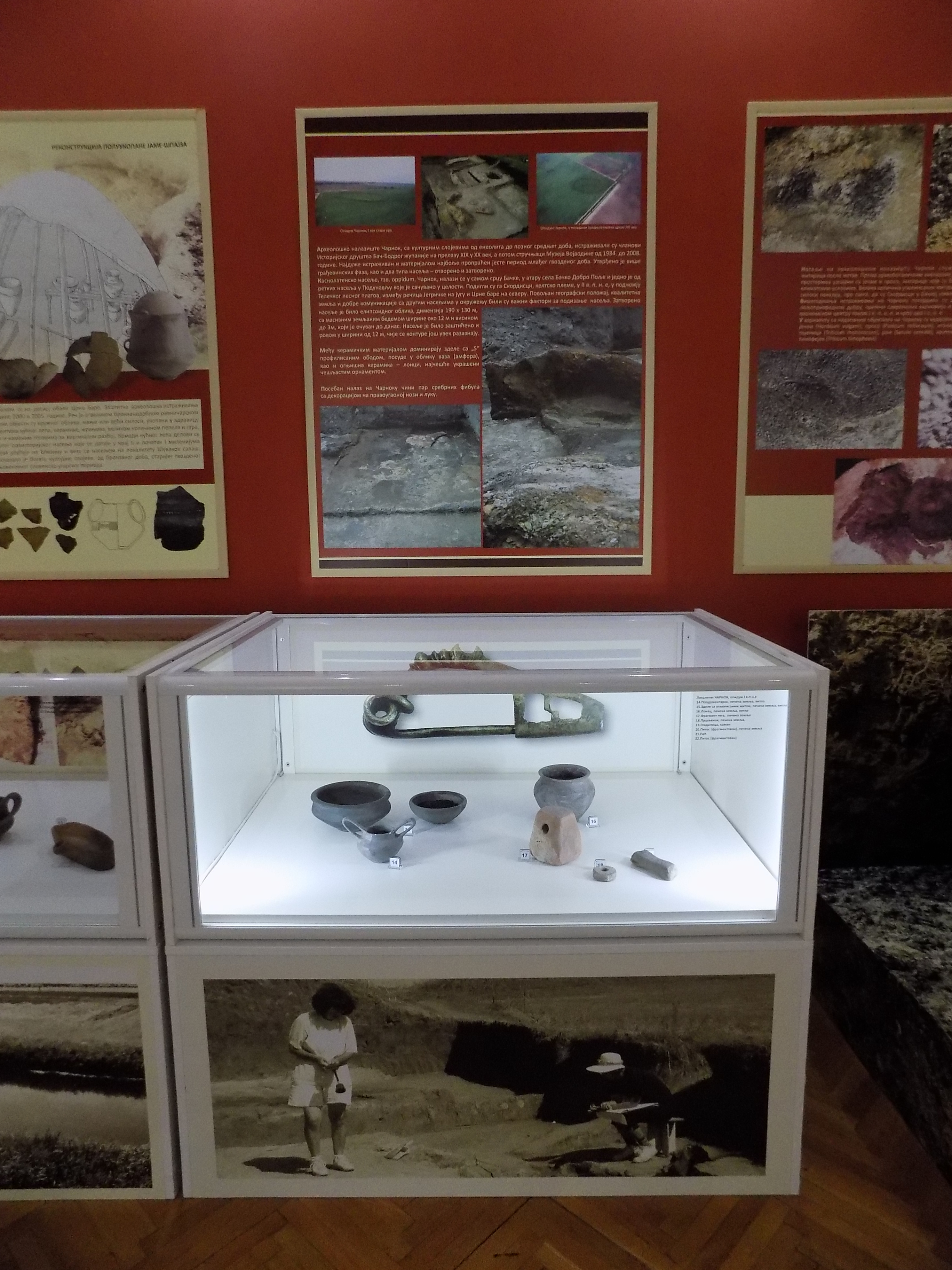 Objects from the archaeological site Čarnok in the permanent exhibition of the museum